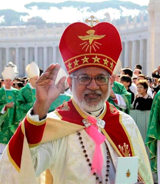 His Beatitude Mar George cardinal Alencherry the Major archbishop of Ernakulam-Angamaly and the Head & Father of Syro-Malabar Catholic Church in India.